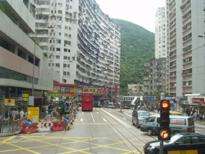 By Tsui Sing Yan Eric (rseric)